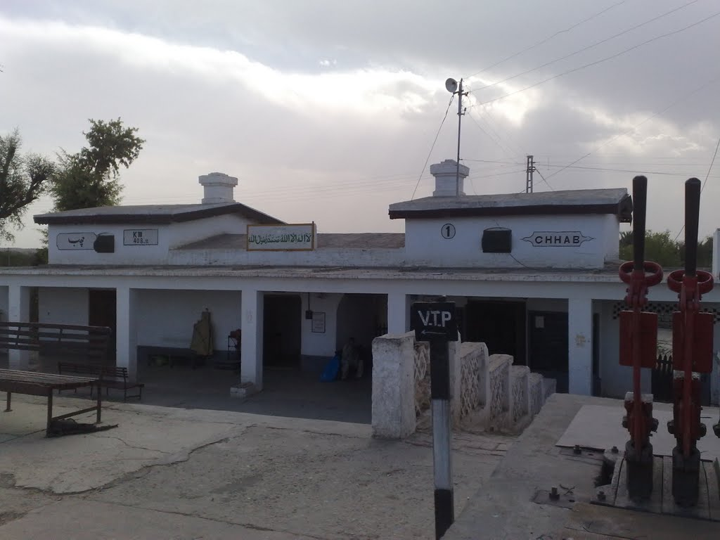 Chhab Raiwaly Station